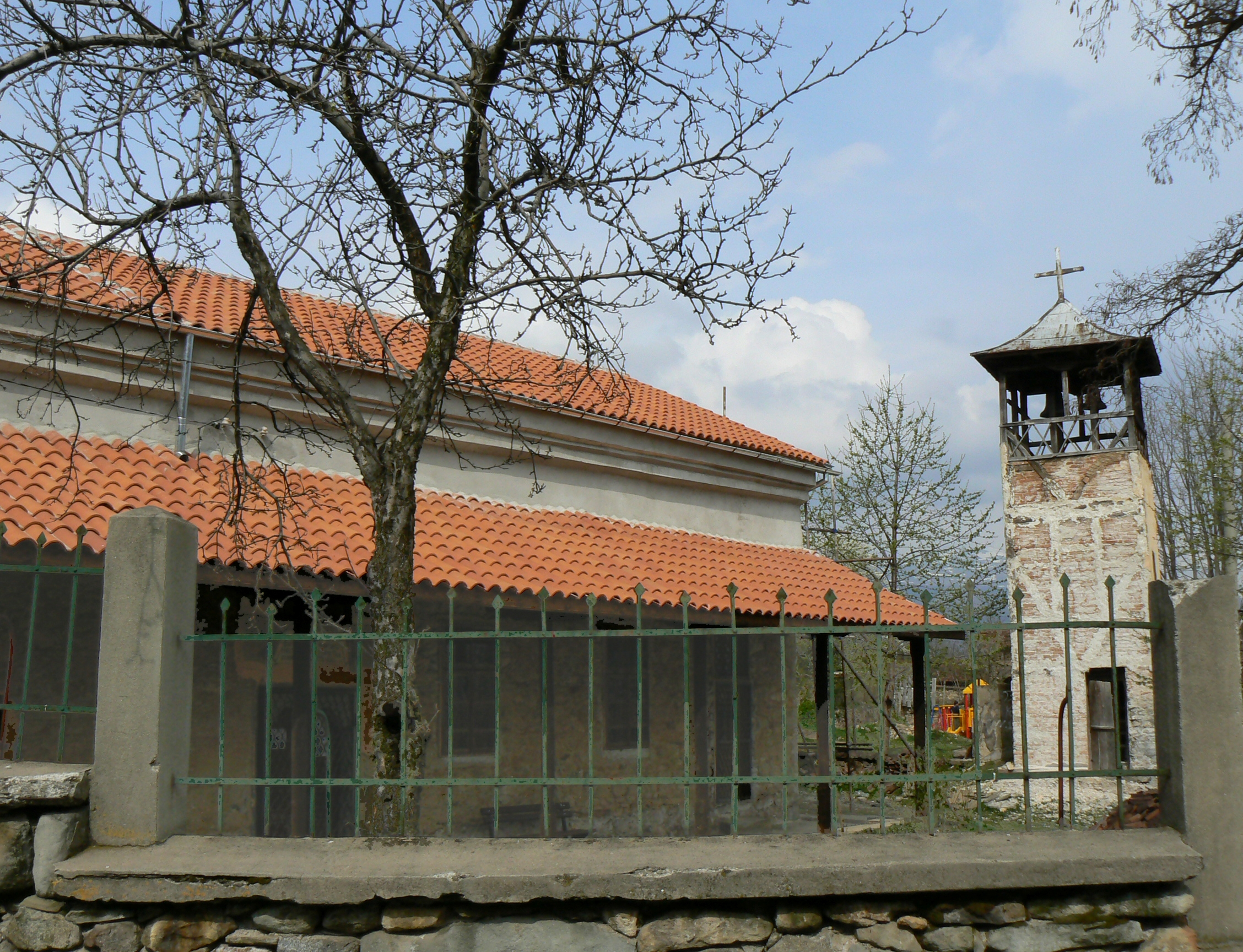 Church "St Nikolai" in village Chelopech, Bulgaria. Built in year 1835.